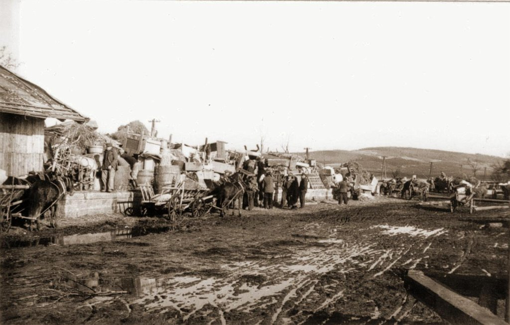 Resettlement of Ukrainians from Nowosielce to USSR, March 1946. Resettling persons by the ruins of the train station completely destroyed by UPA members on 30 Dec. 1945.